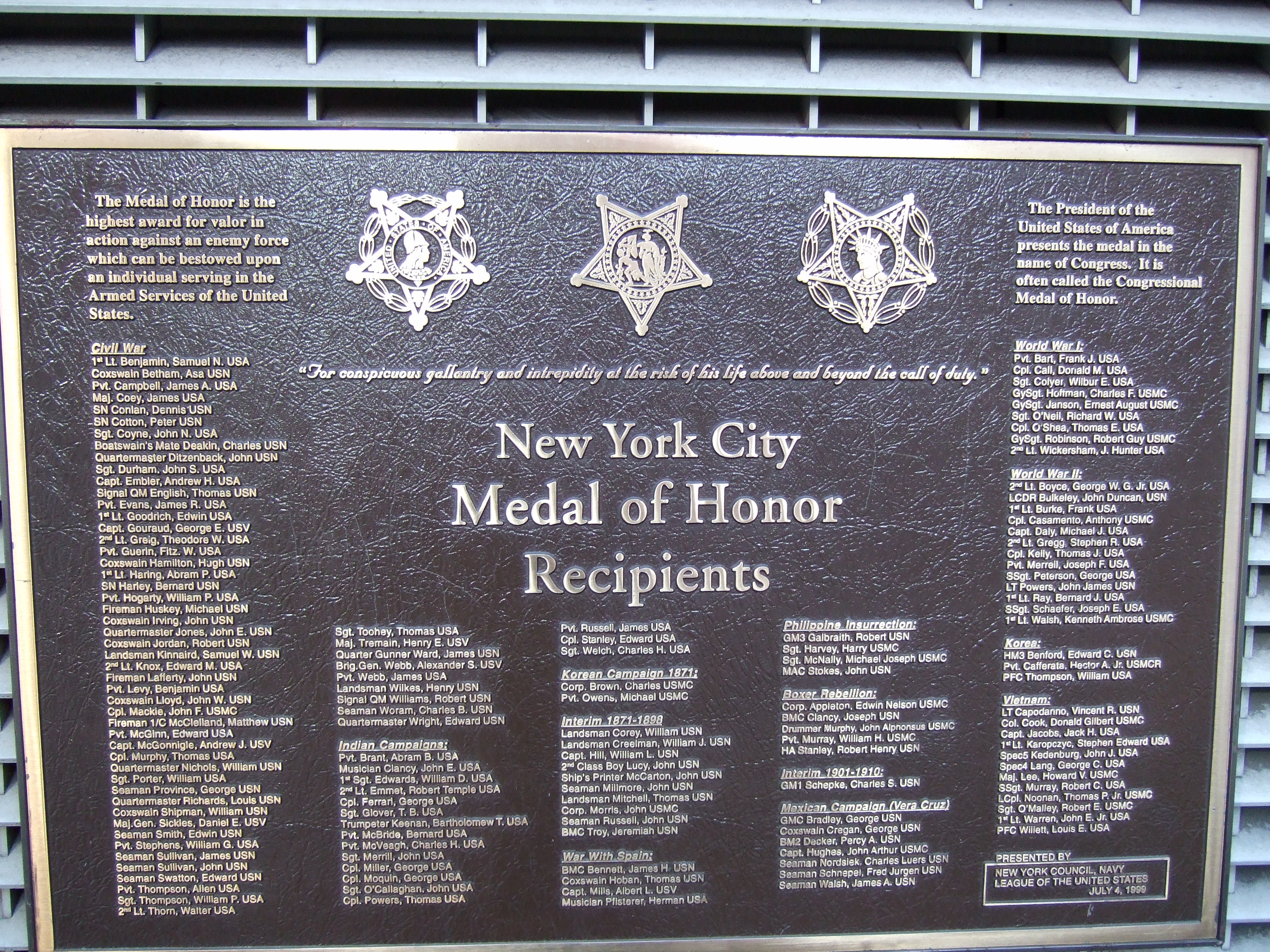 NYC Medal of Honor Recipients